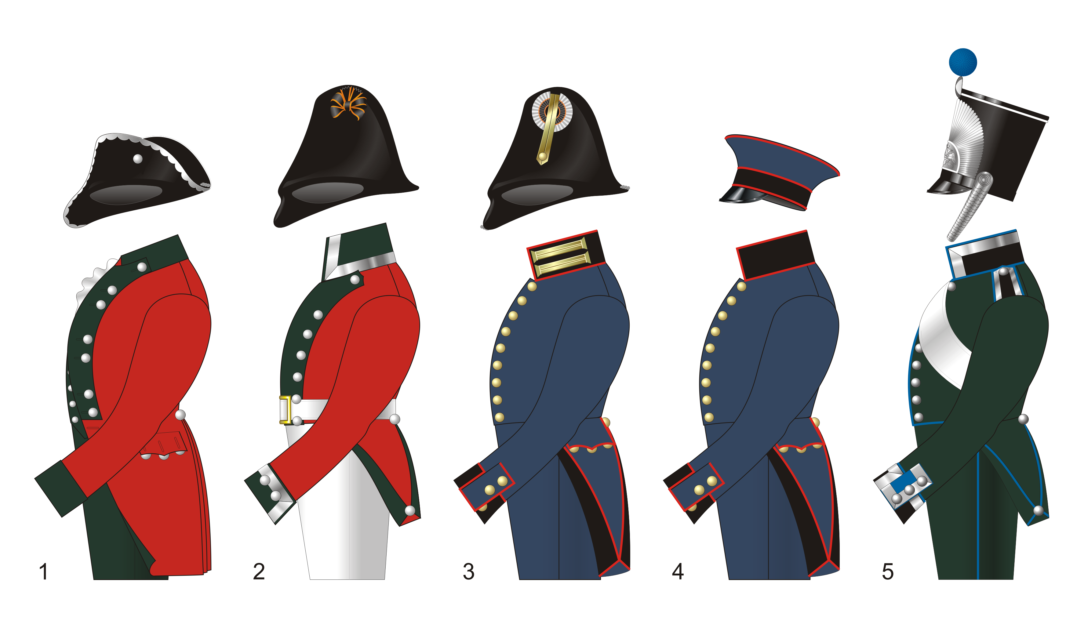 Uniform of Mining Institute, late 18th - mid 19th century: 1. Lecturer of Mining School, 1794 2. Cadet (Unteroffizier) of Mining Cadet Corps, 1804 3. Student (senior pupil) of Mining Institute, 1833-1834 4. Junior pupil of Mining Institute, 1833-1834 5. Cadet (Unteroffizier) by The Institute of the Corps of Mining Engineers, 1834-1848